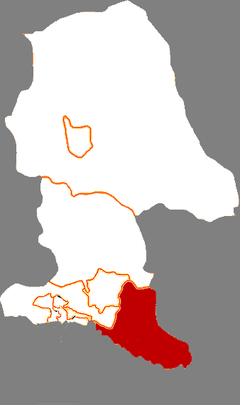 Locator map of Tumed Right Banner in Baotou City, Inner Mongolia, China